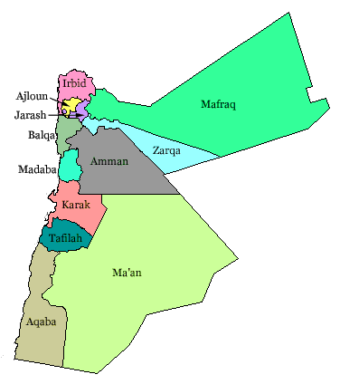 Map of Jordan and its districts.